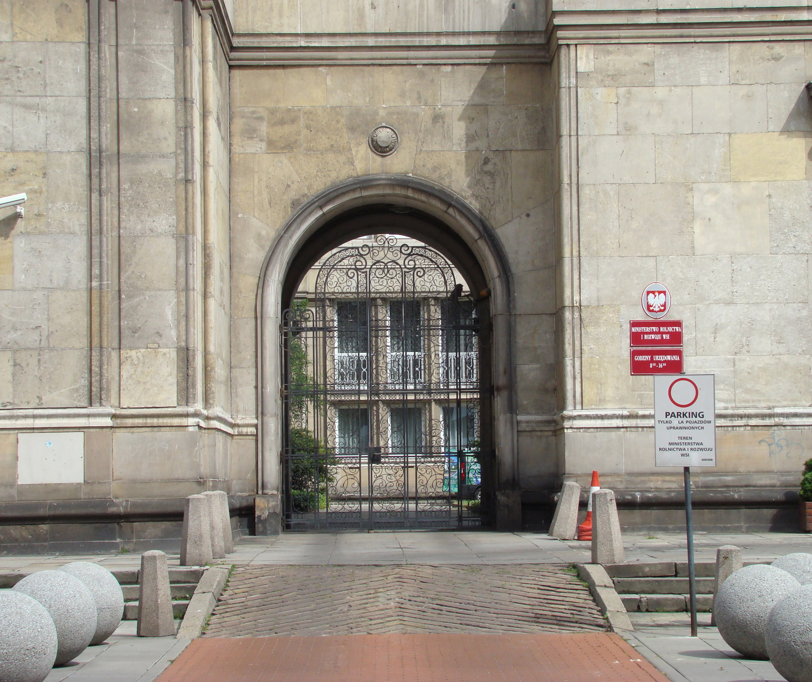 Ministry of Agriculture, Warsaw, Poland -detail